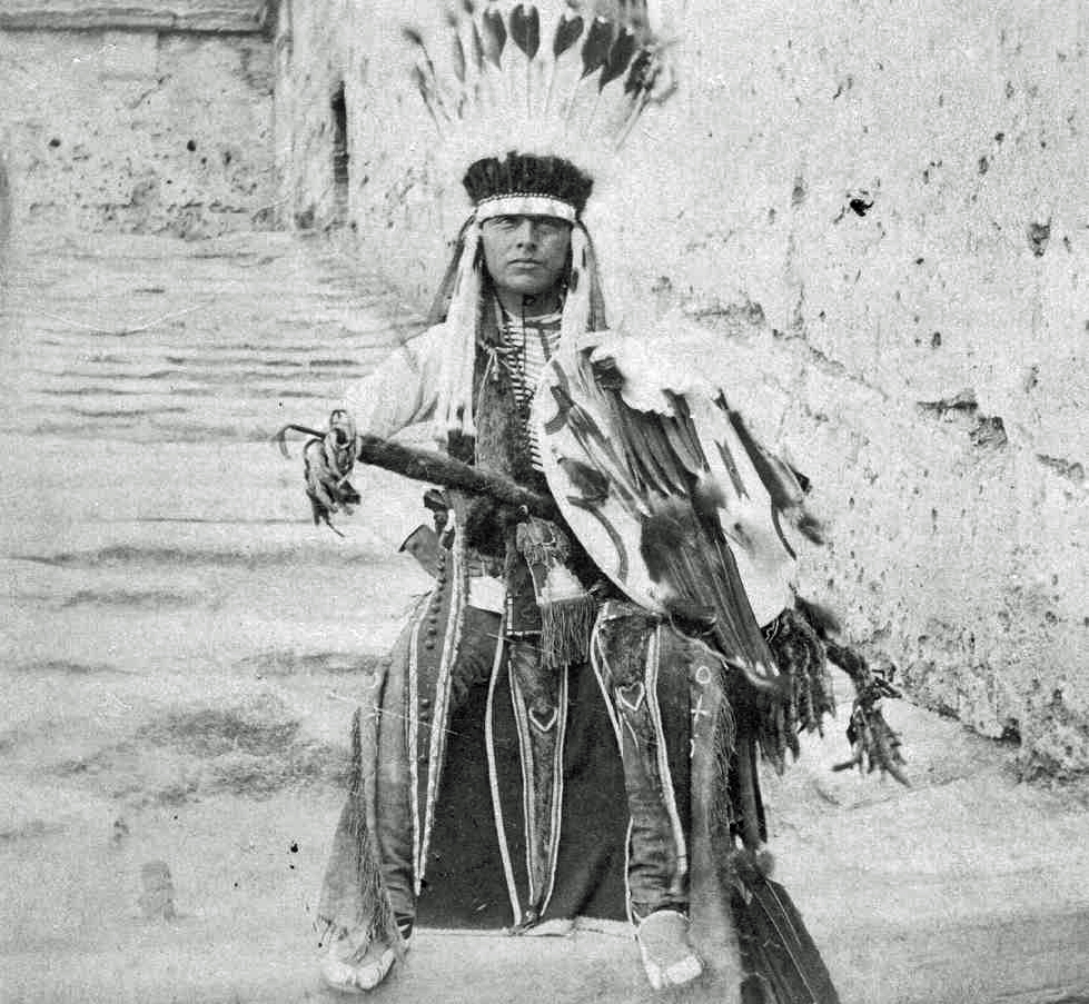 Howling Wolf, Southern Cheyenne, picture take while imprisoned at Fort Marion in Florida